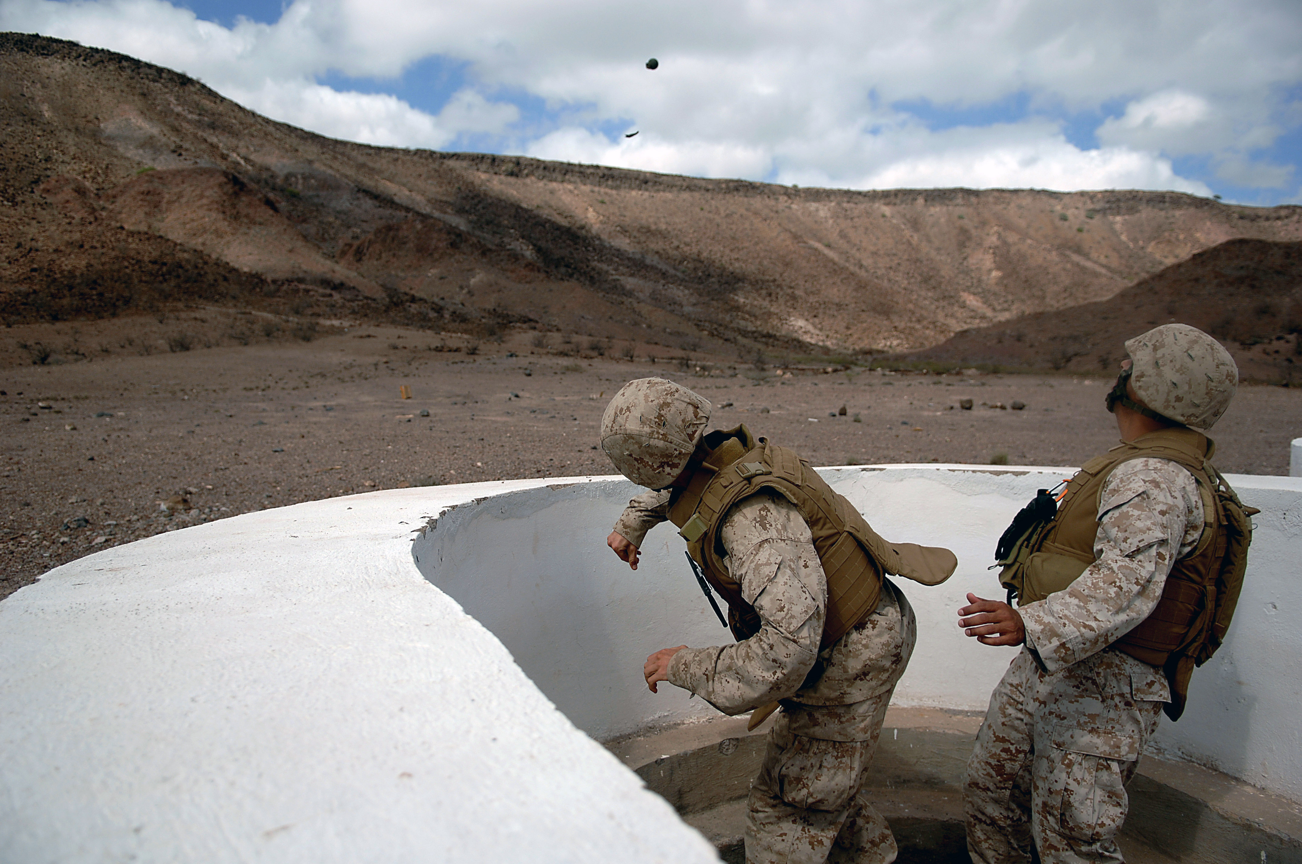 CAMP LEMONIER, Djibouti (Jan. 23, 2008) A Marine assigned to the 3rd Low Altitude Air Defense Battalion, throws a M-67 Fragment Grenade at the firing range. The Marines will be firing the M203 Grenade Launcher, AT-4 and throwing M-67 Fragment Grenades for practice while deployed with the Combined Joint Task Force-Horn of Africa. U.S. Air Force photo by Tech. Sgt. Jeremy T. Lock (Released)